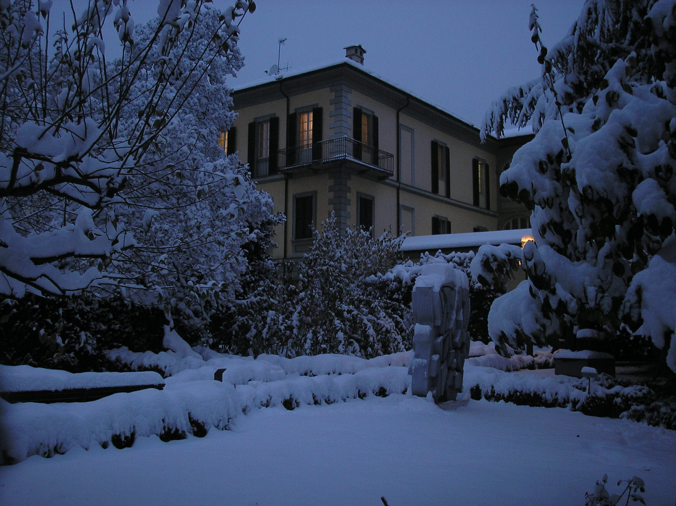 Palazzo Sertoli